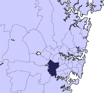 Locator Map Bankstown lga sydney.png Based on Image:Ku-ring-gai sydney.png by User:Randwicked.